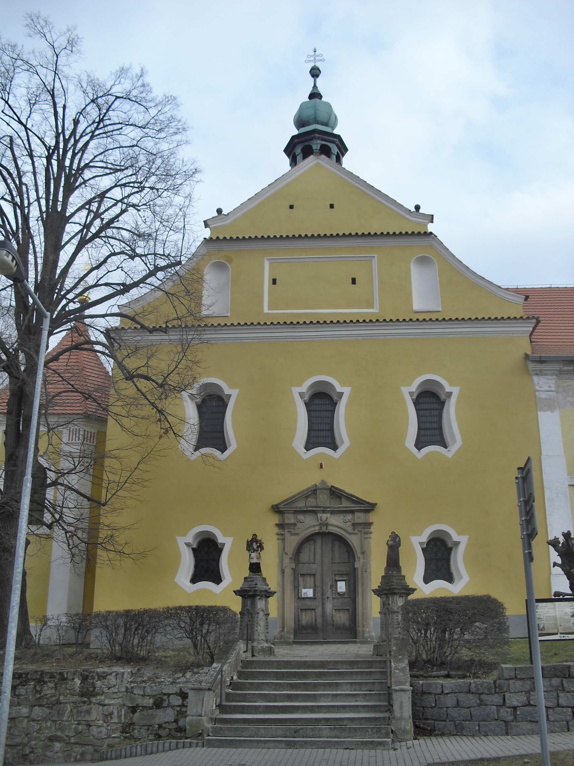 Votice, Benešov District, Czech Republic. Franciscan monastery.